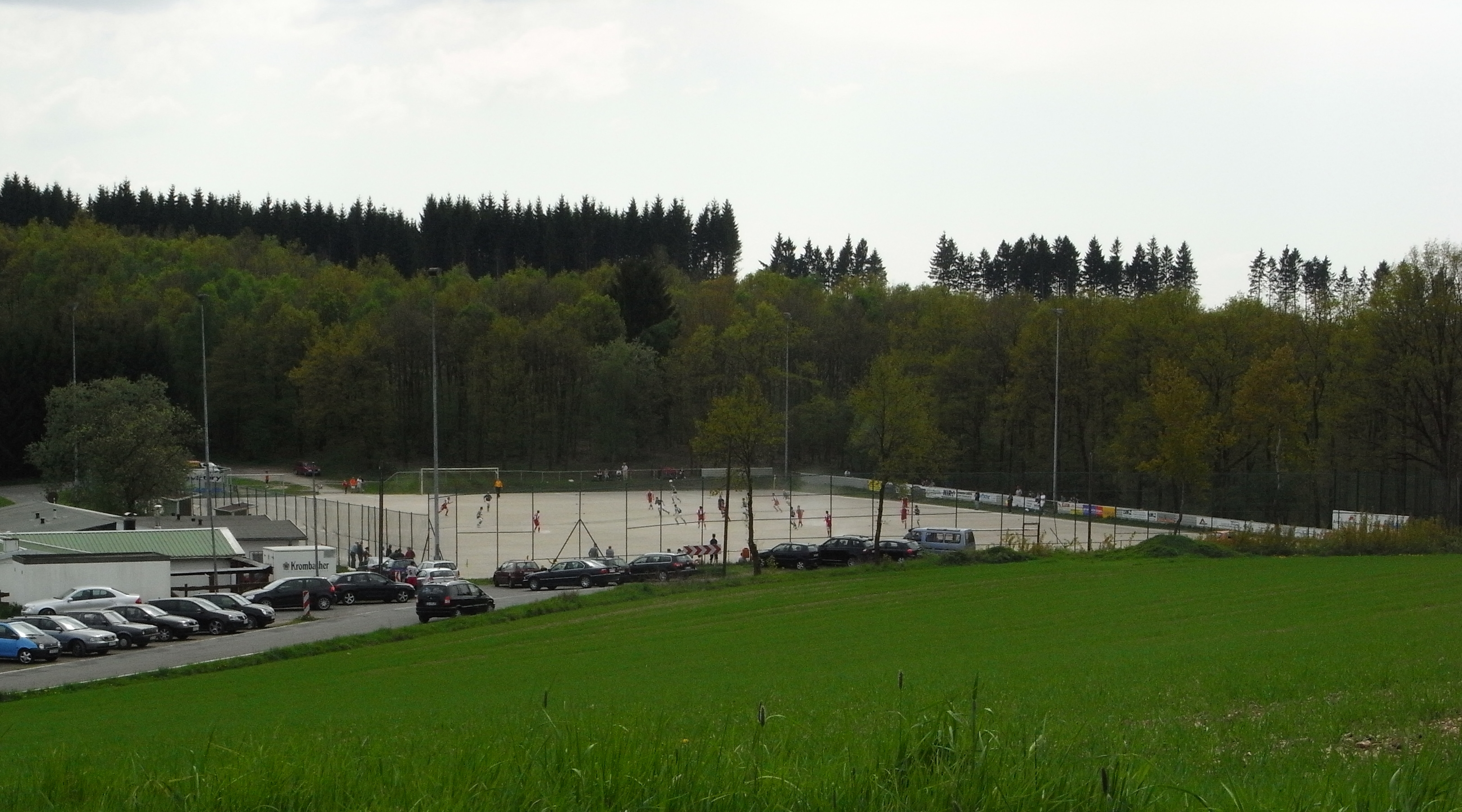 Soccer ground in Obersetzen, district of Siegen, Germany.